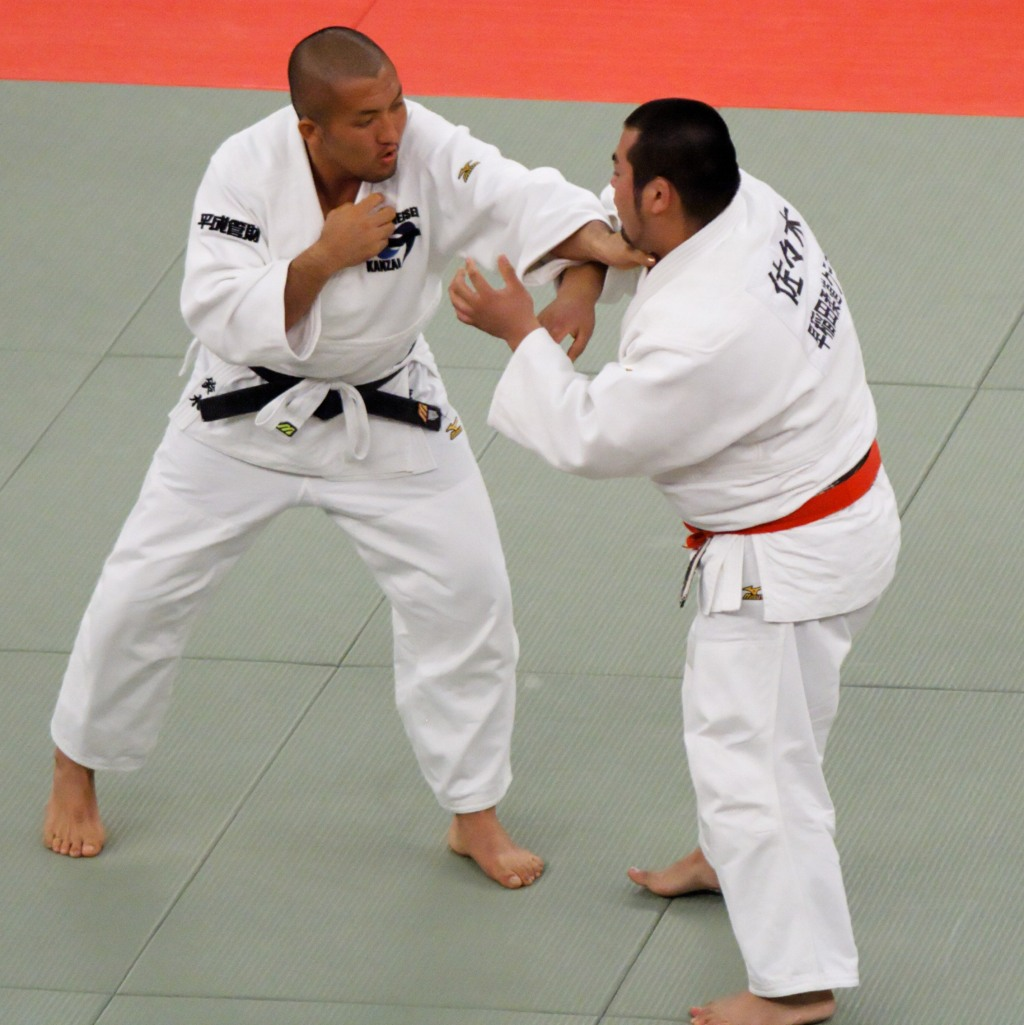 At the All-Japan Judo Championships in 2008Left: Keiji SuzukiRight: Tomoya Sasaki (佐々木智哉)